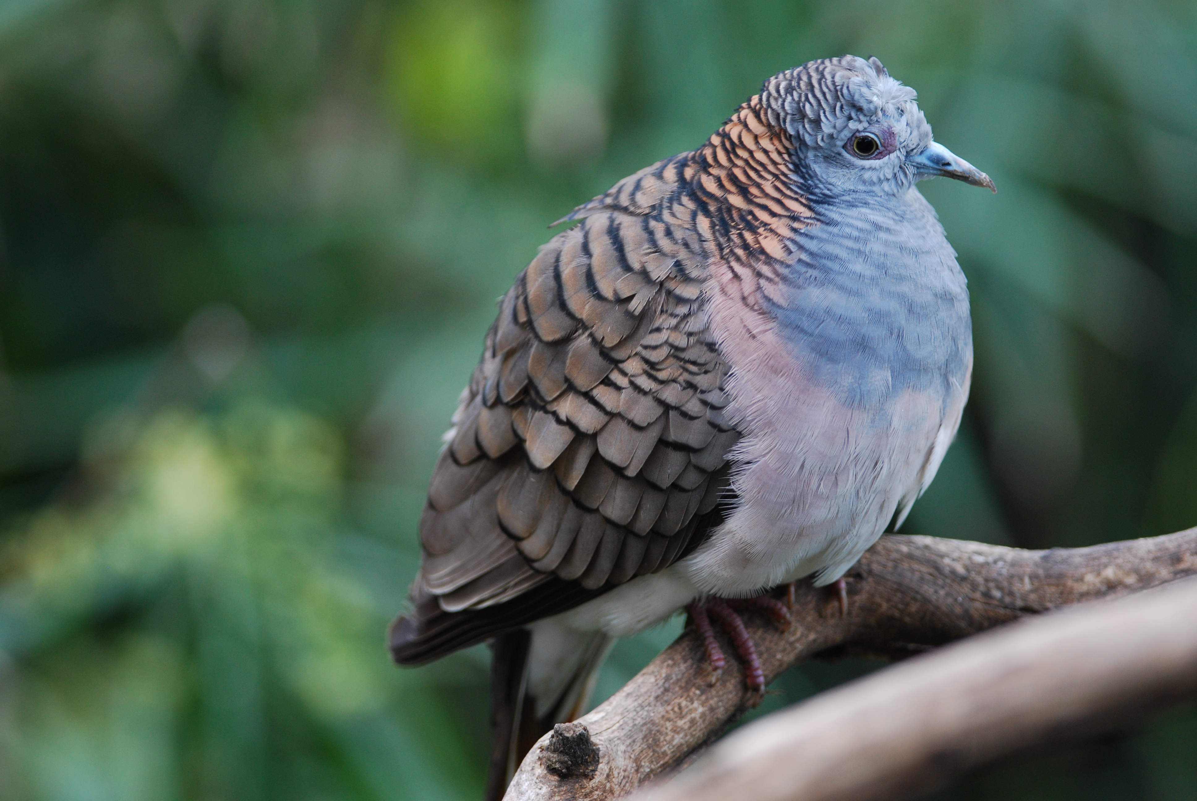 Geopelia humeralis at Adelaide Zoo, South Australia